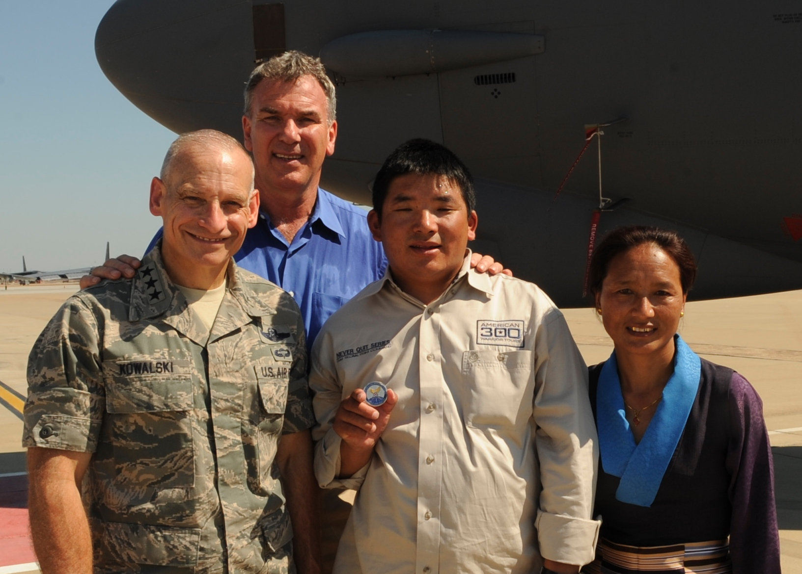 James Kowalski, Tom Whittaker (mountaineer) and Chhiring Dorje Sherpa and Dawa Yangzum Sherpa